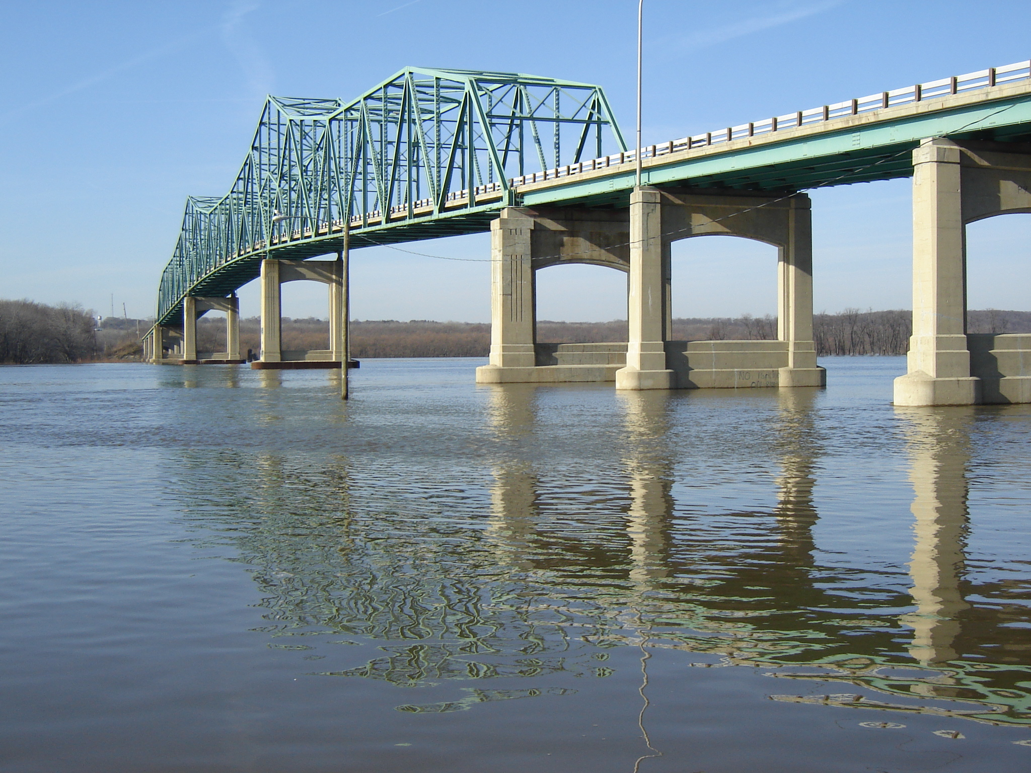 The truss bridge crossing the Illinois River between Lacon, Illinois and Sparland, Illinois